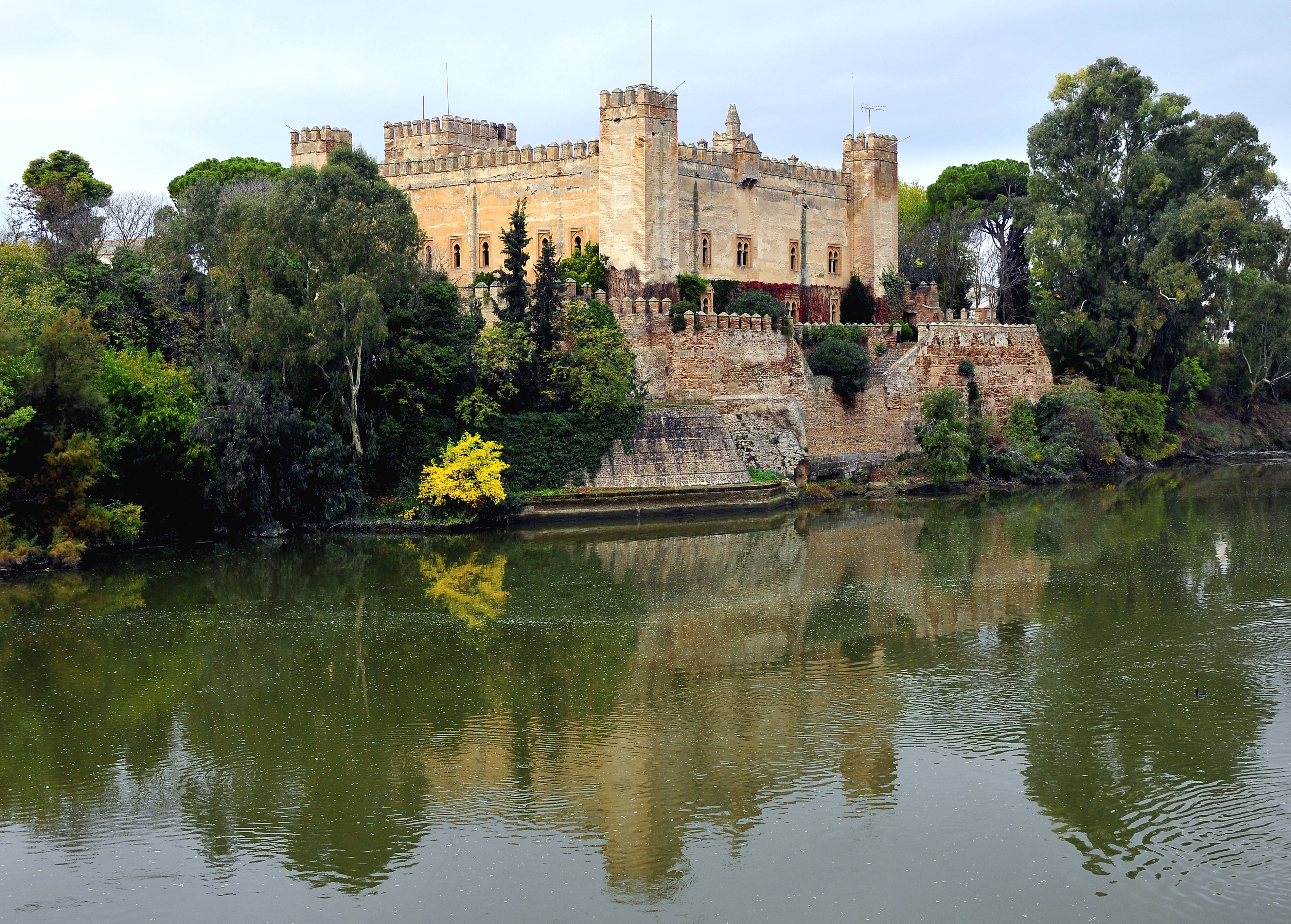 Castle of the Marquesses of Malpica. Malpica de Tajo, Toledo, Castile-La Mancha, Spain